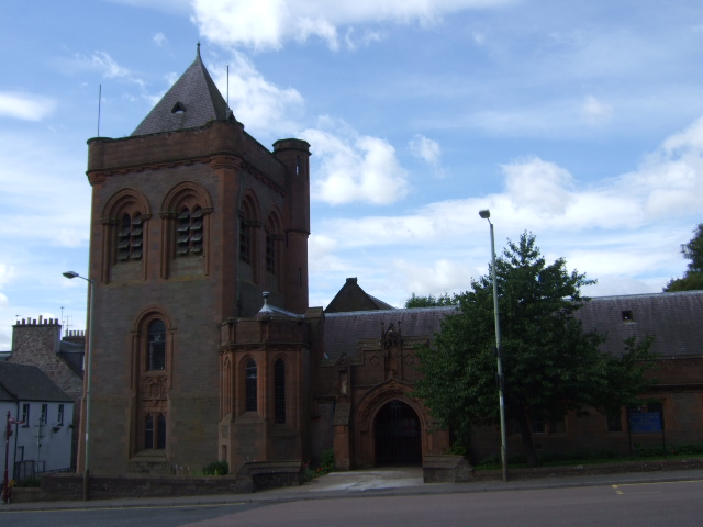 Gardner Memorial Church, Brechin On St Ninian's Square.